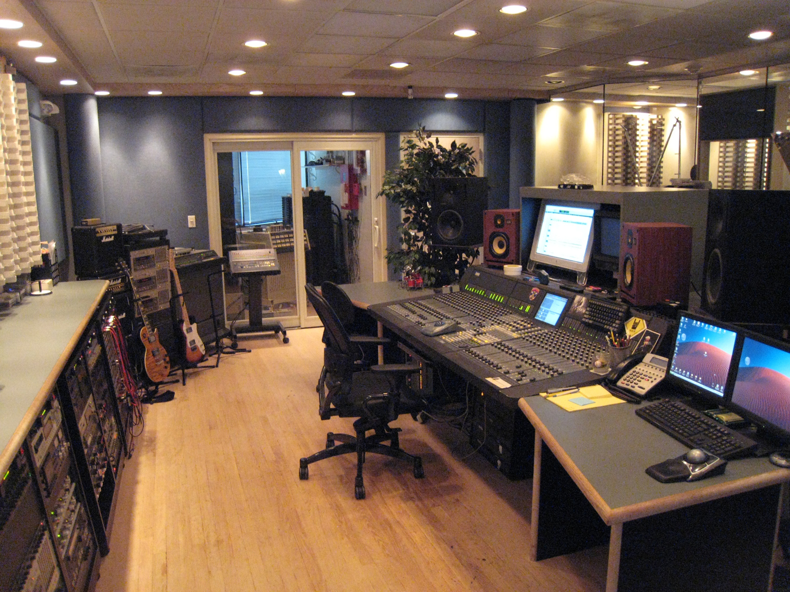 Intermediapost's recording studio is a unique mixture of acoustic tiles and floor to ceiling glass walls allowing you a one of a kind recording experience. From Neumann and Telephunkin microphones to a blend of Protools hardware and Euphonix digital/analog desk we strive to maintain a level of recording quality that is unmatched.